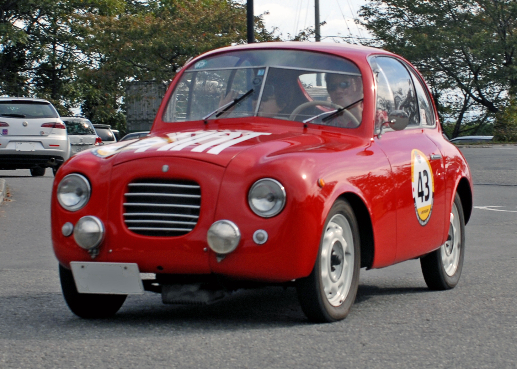 Fiat 500 Zagato Panoramica at "La Festa Mille MIglia 2008, Japan